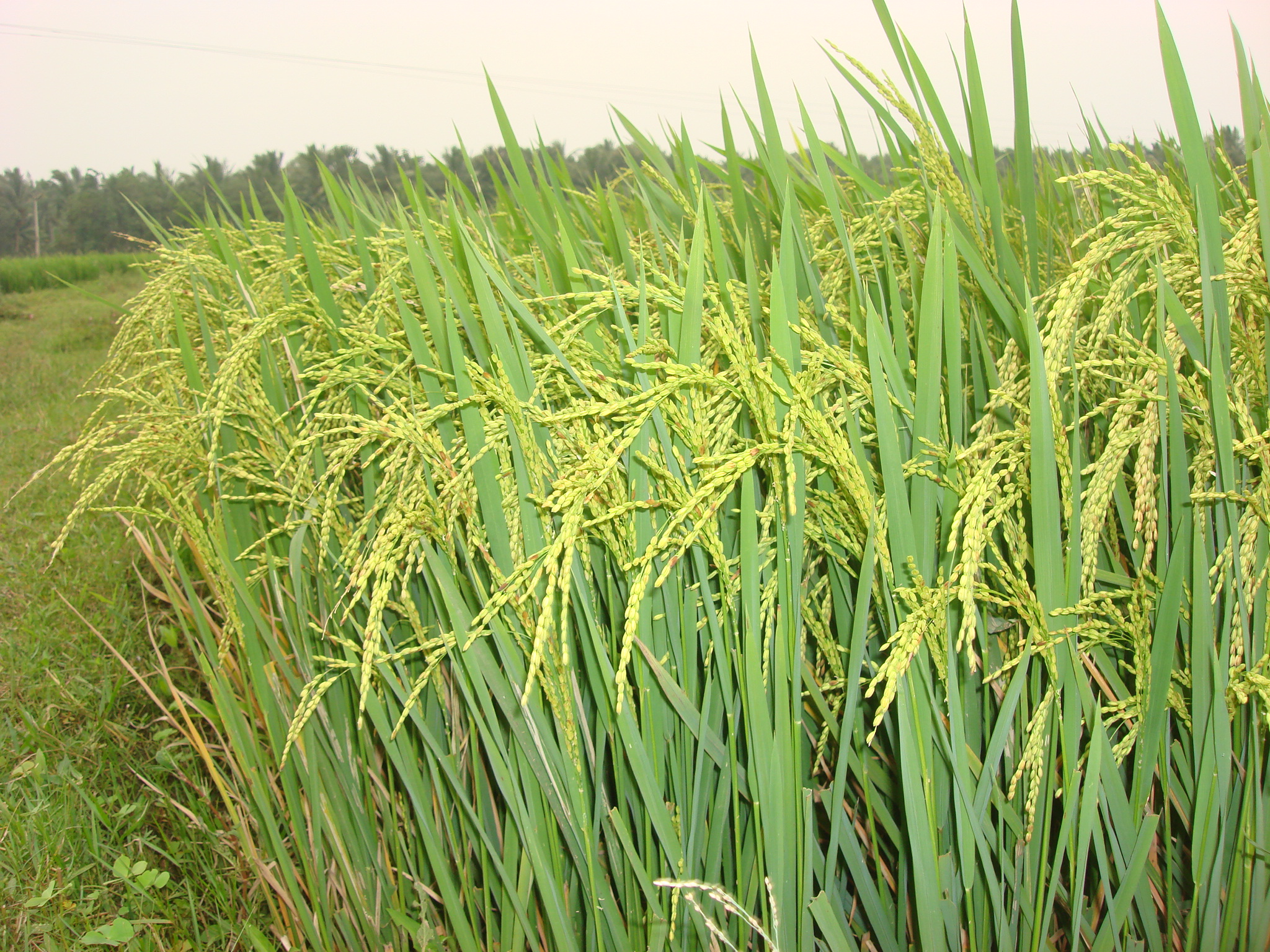 This photos were taken at Mudachikkadu,Peravurani, Thanjavur District, TamilNadu, Mudachikkadu village is nice and cool climate and natural place